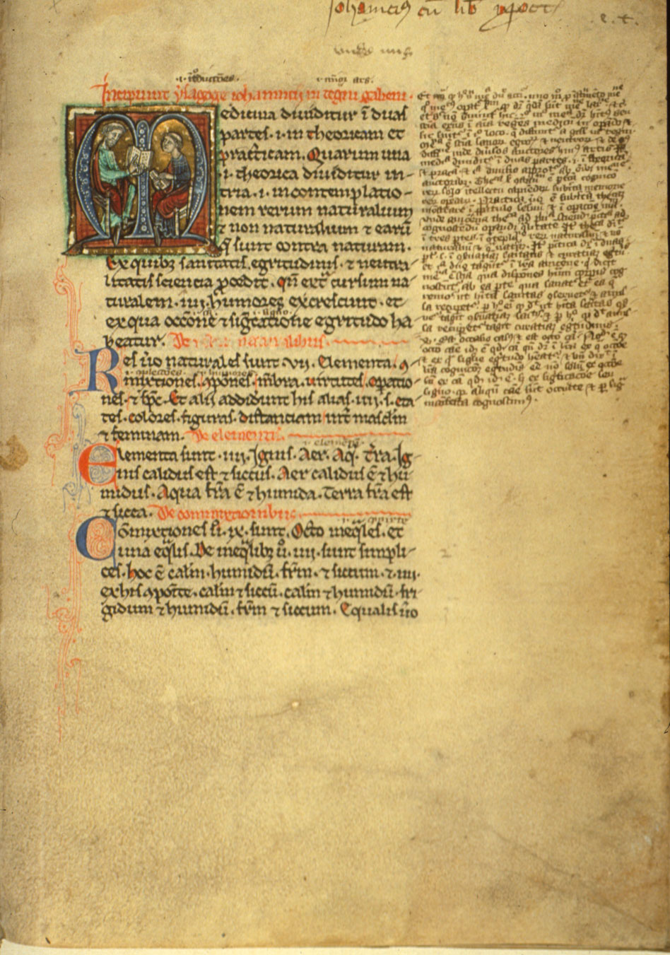 Hunayn ibn Ishaq al-'Ibadi, 809?-873 (known as Joannitius). Isagoge Johannitii in Tegni Galeni. Oxford, 13th century. (DeRicci NLM [78].) This beautiful manuscript from England contains a model "Articella," decorated with 12 miniature illustrations.